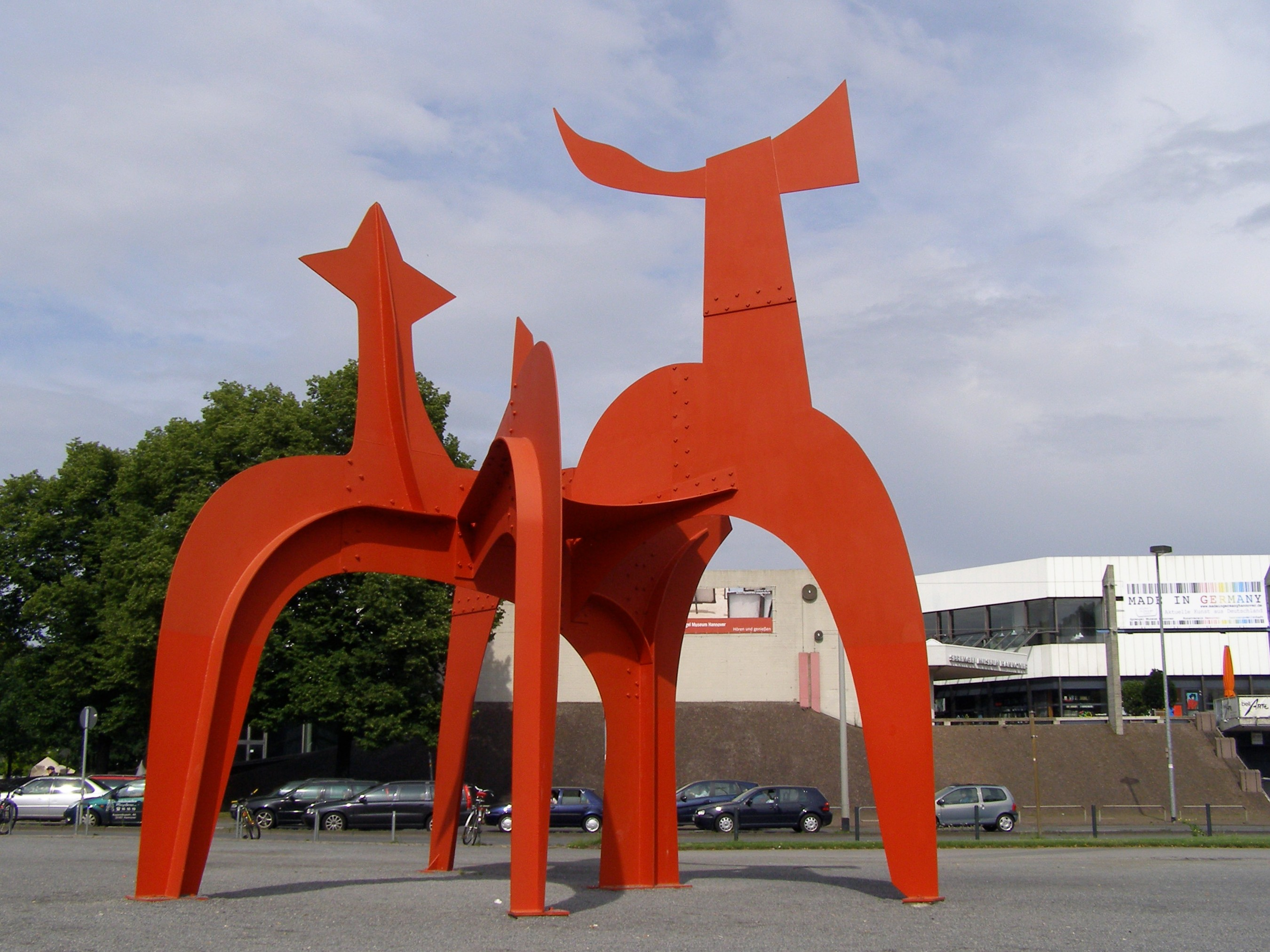 Sculpture Le Halebardier (1971) by Alexander Calder outside the Sprengel Museum (of modern art), Hannover/Germany.